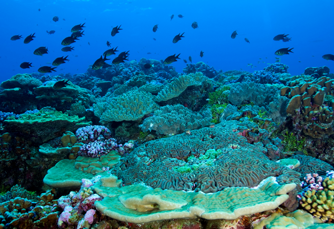 Palmyra’s deep reef terrace habitat dominated by massive Porites and soft corals at 20 m. Photo credit: Franklin Viola.